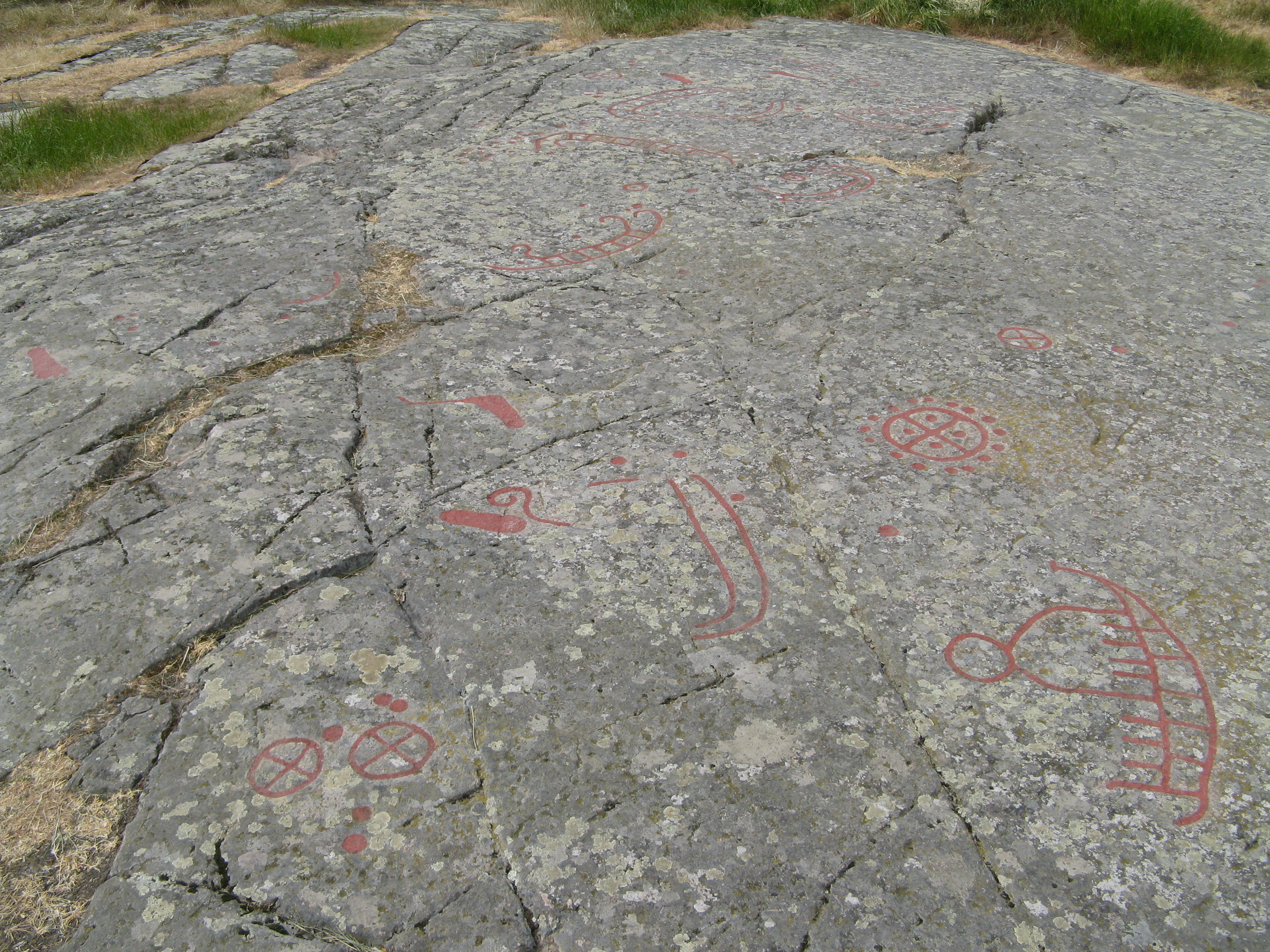 Rock carvings of Madsebakke by Allinge-Sandvig, Bornholm